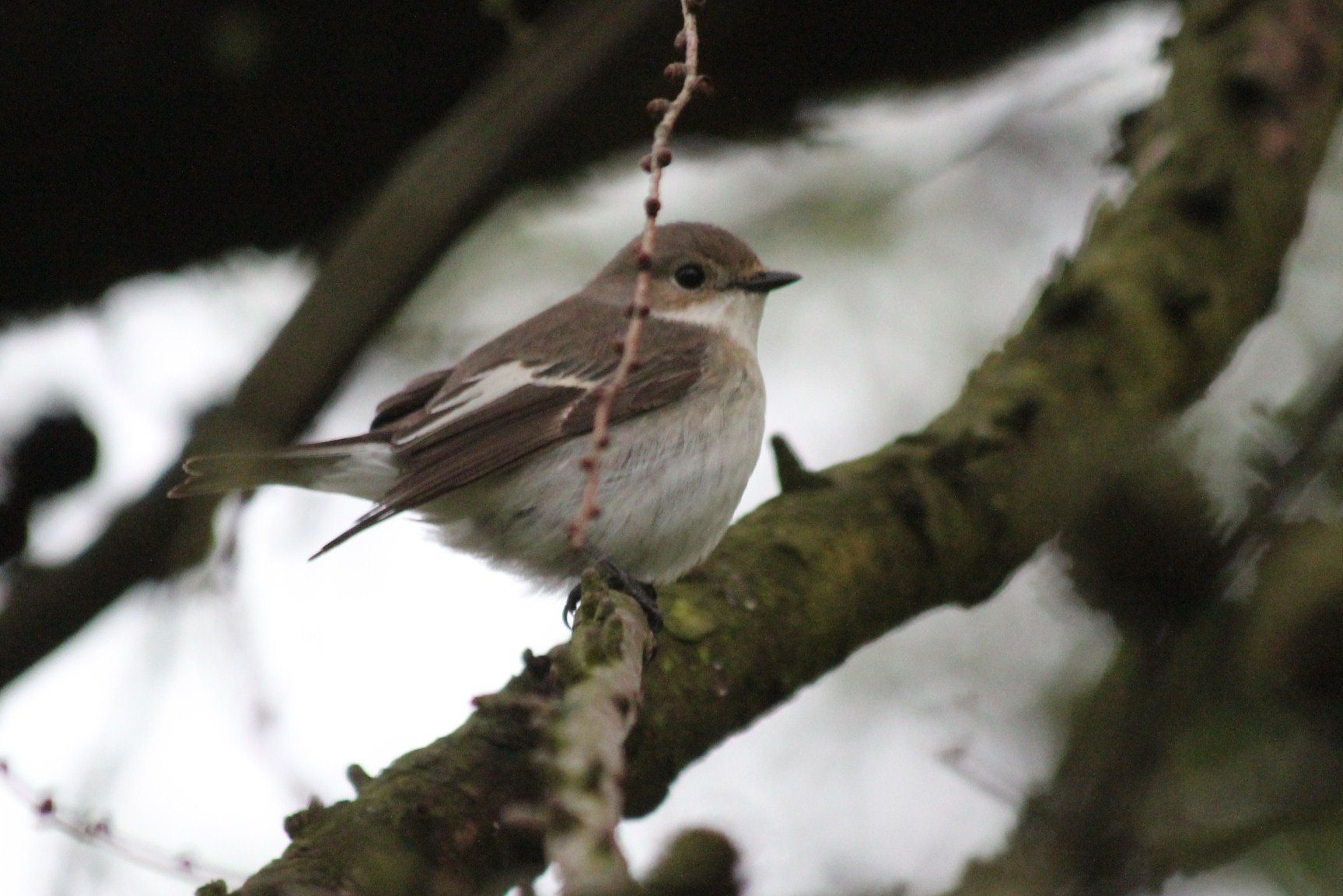 European Pied Flycatcher in Sweden.